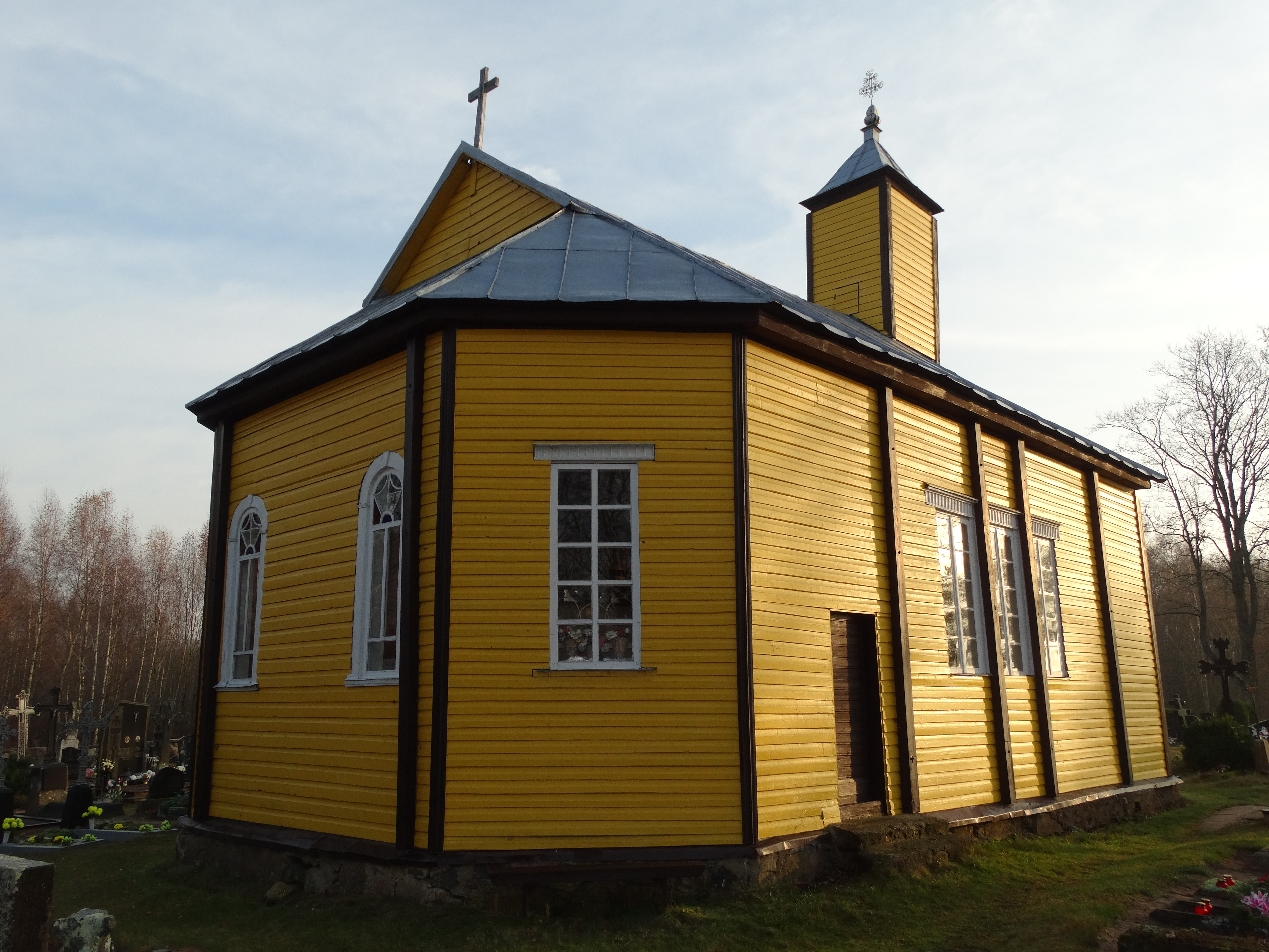 Chapel in Deikiškiai, Biržai district, Lithuania